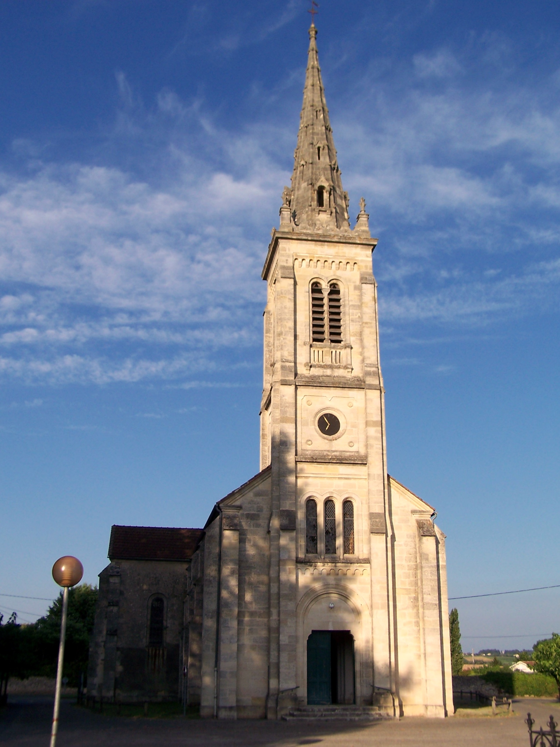 Saint Mary's church of Virelade (Gironde, France)